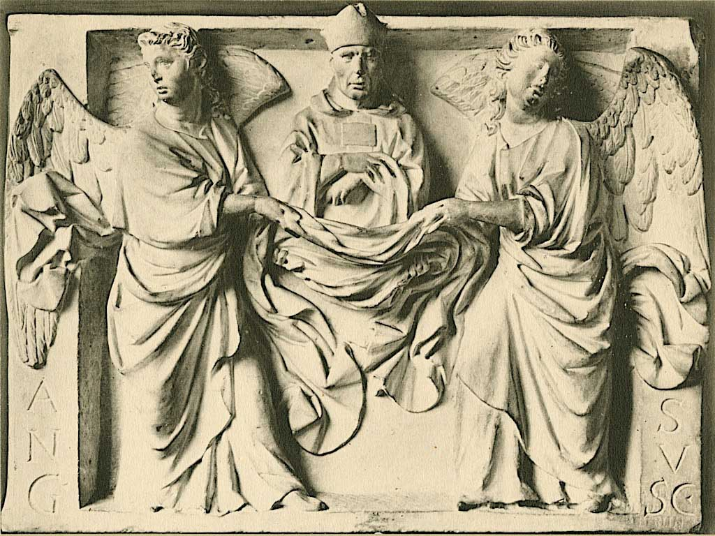 'The Elevation of the Soul of Saint Martin', by Nicola Pisano (c. 1280), a relief possibly destroyed in the Friedrichshain flak tower fire in Berlin, at the end of the Second World War (May 1945). The painting belonged to the collections of the Kaiser-Friedrich-Museum, now the Bode-Museum of Berlin. Marble.